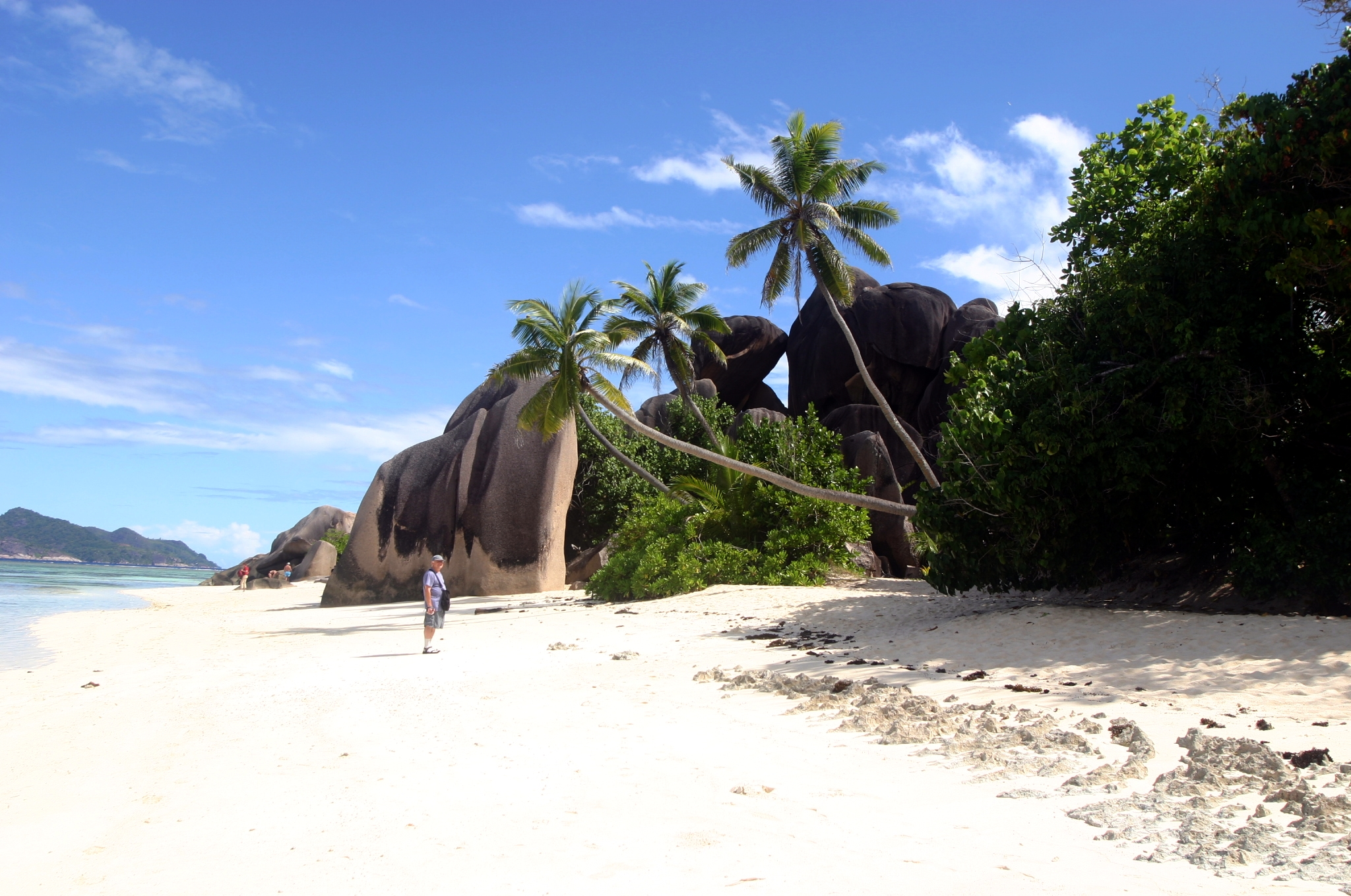 Anse Source d'Argent La Digue Seychelles Photograped by Brocken Inaglory